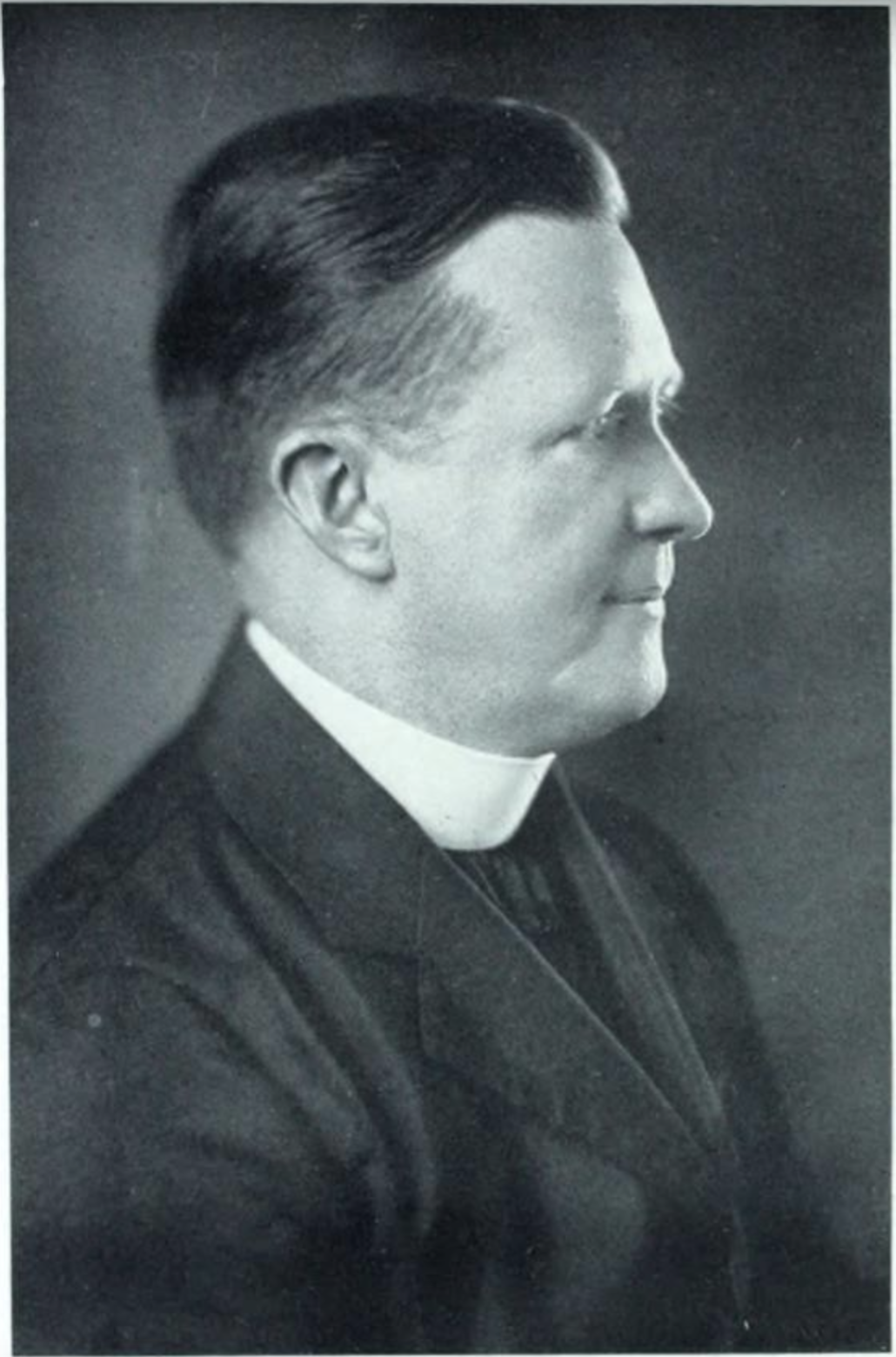 Rev. Joseph A. Canning, S.J. in 1927, as prefect of studies at St. Peter's Preparatory School in Jersey City, New Jersey